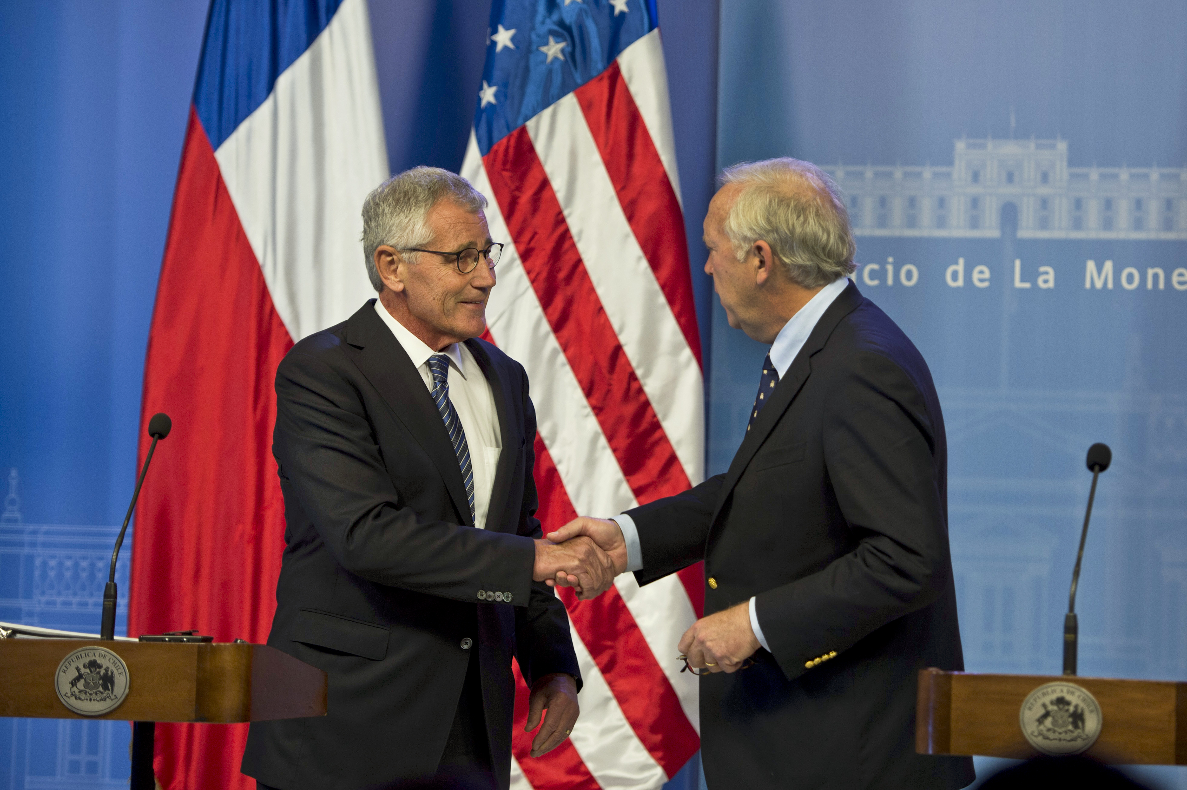 U.S. Defense Secretary Chuck Hagel shakes hands with Chilean Defense Minister Jorge Burgos at the end of a joint press conference in Santiago, Chile, Oct. 11, 2014. Hagel earlier visited Colombia and will travel to Peru during a six-day trip to South America.